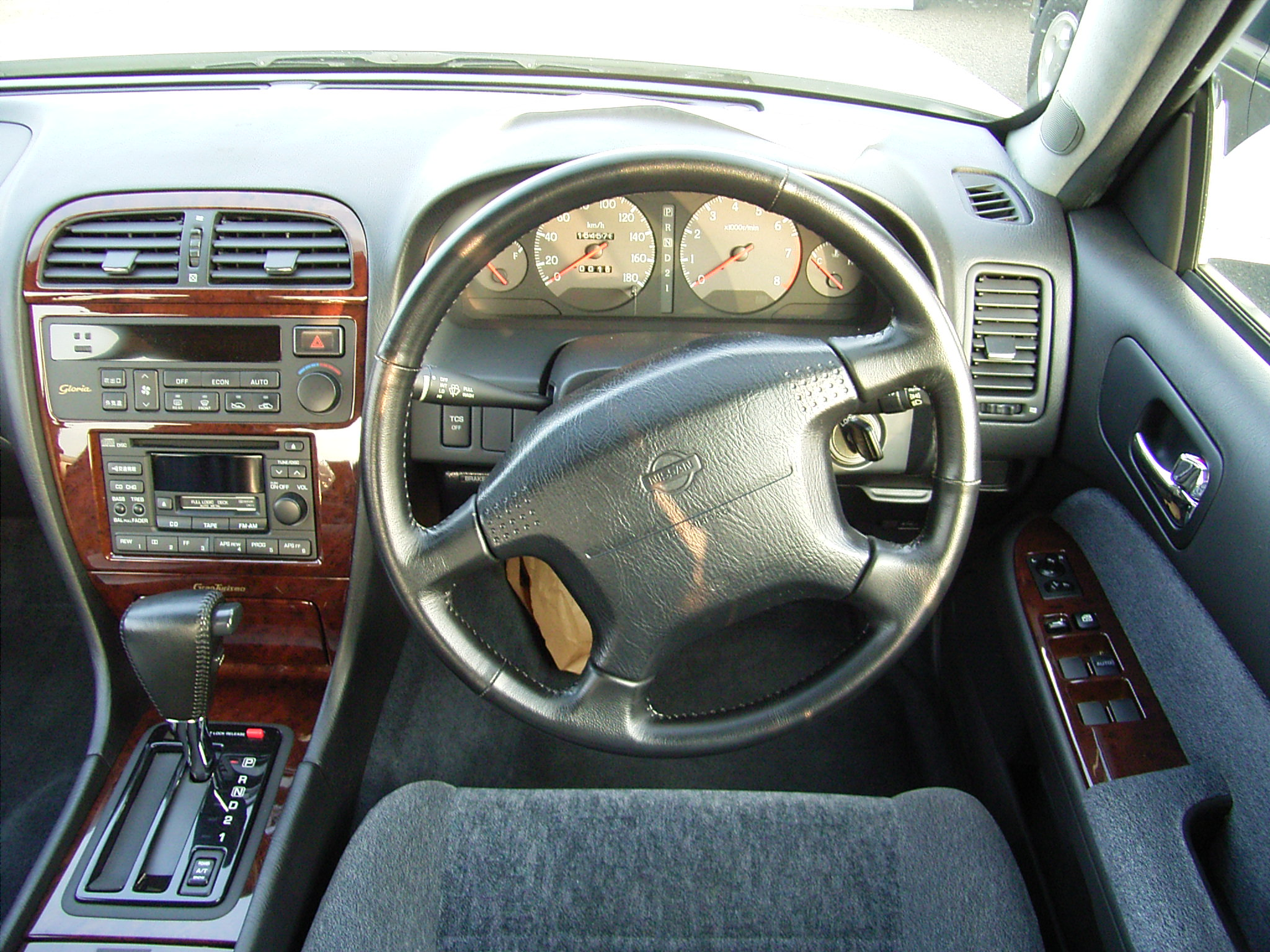 by Andrew Sulimoff (Suland)